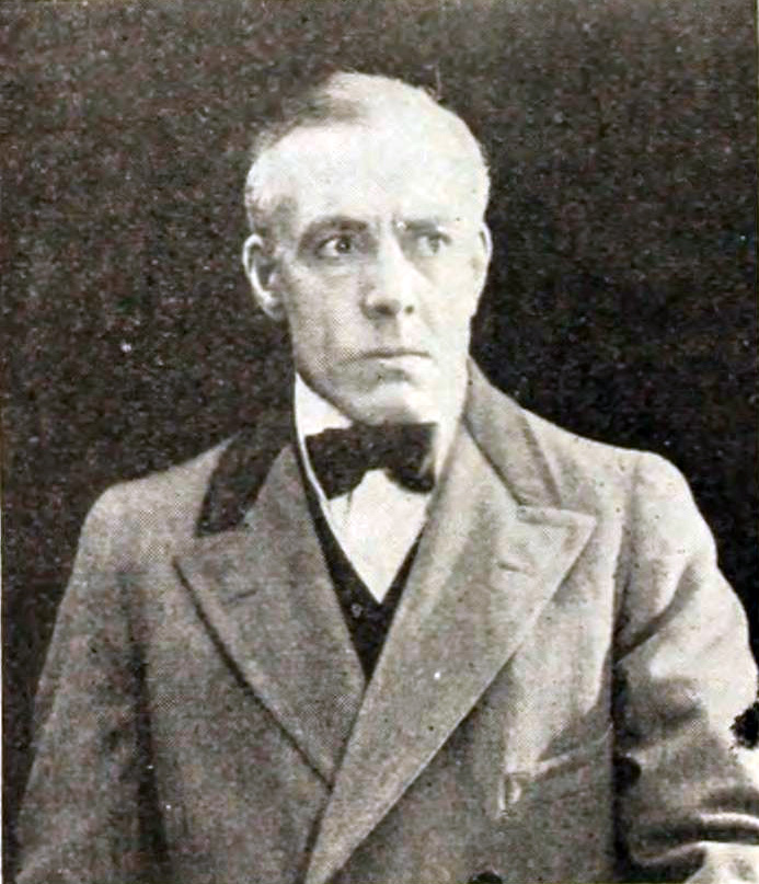 Illustration of an article in The Moving Picture World